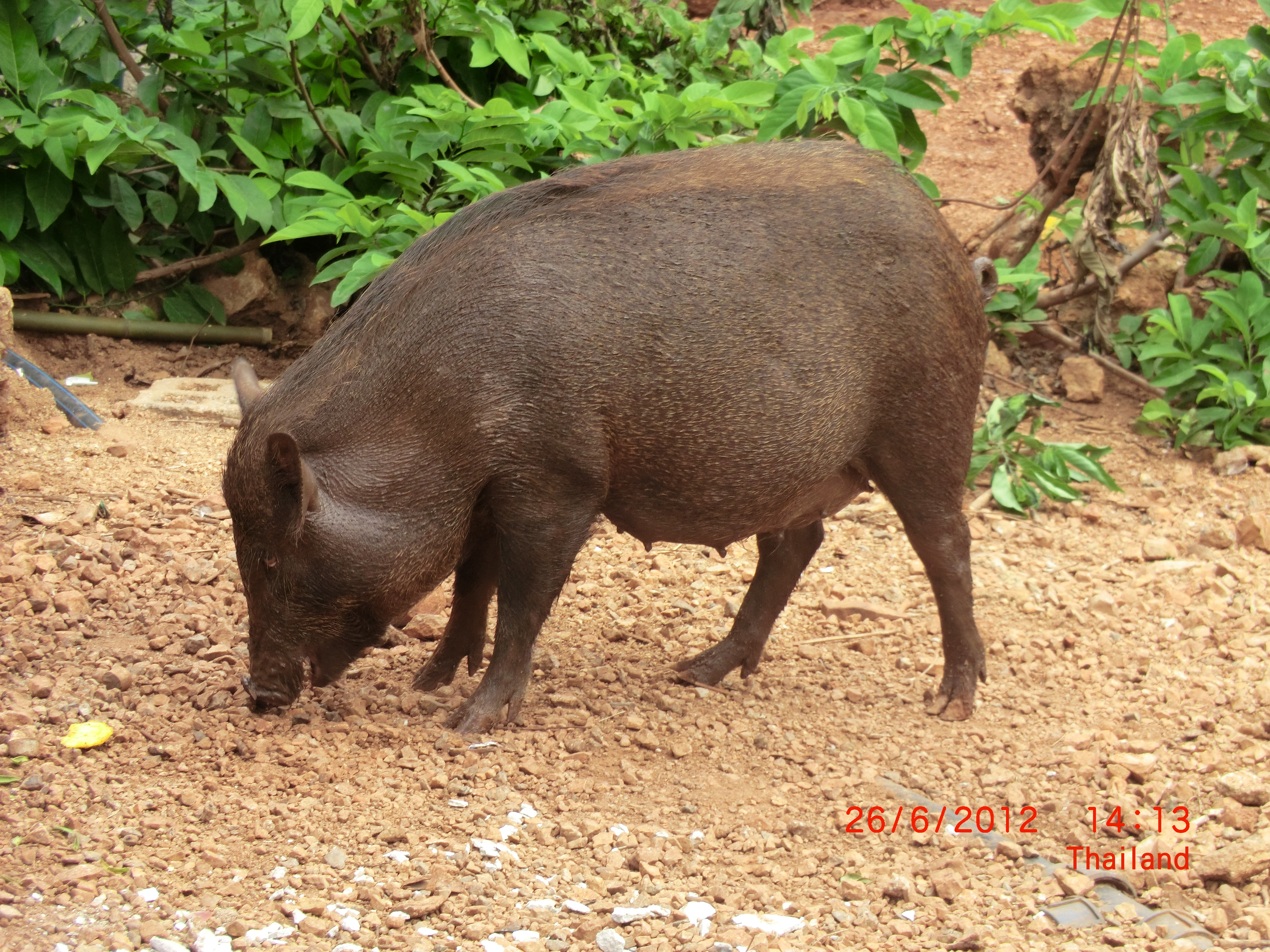 A Wild Sow doing what she does best